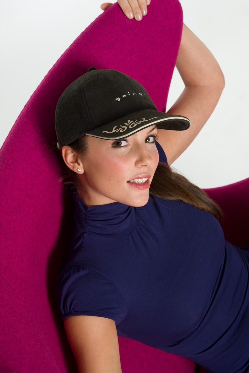 Anna Hammel at a shooting.